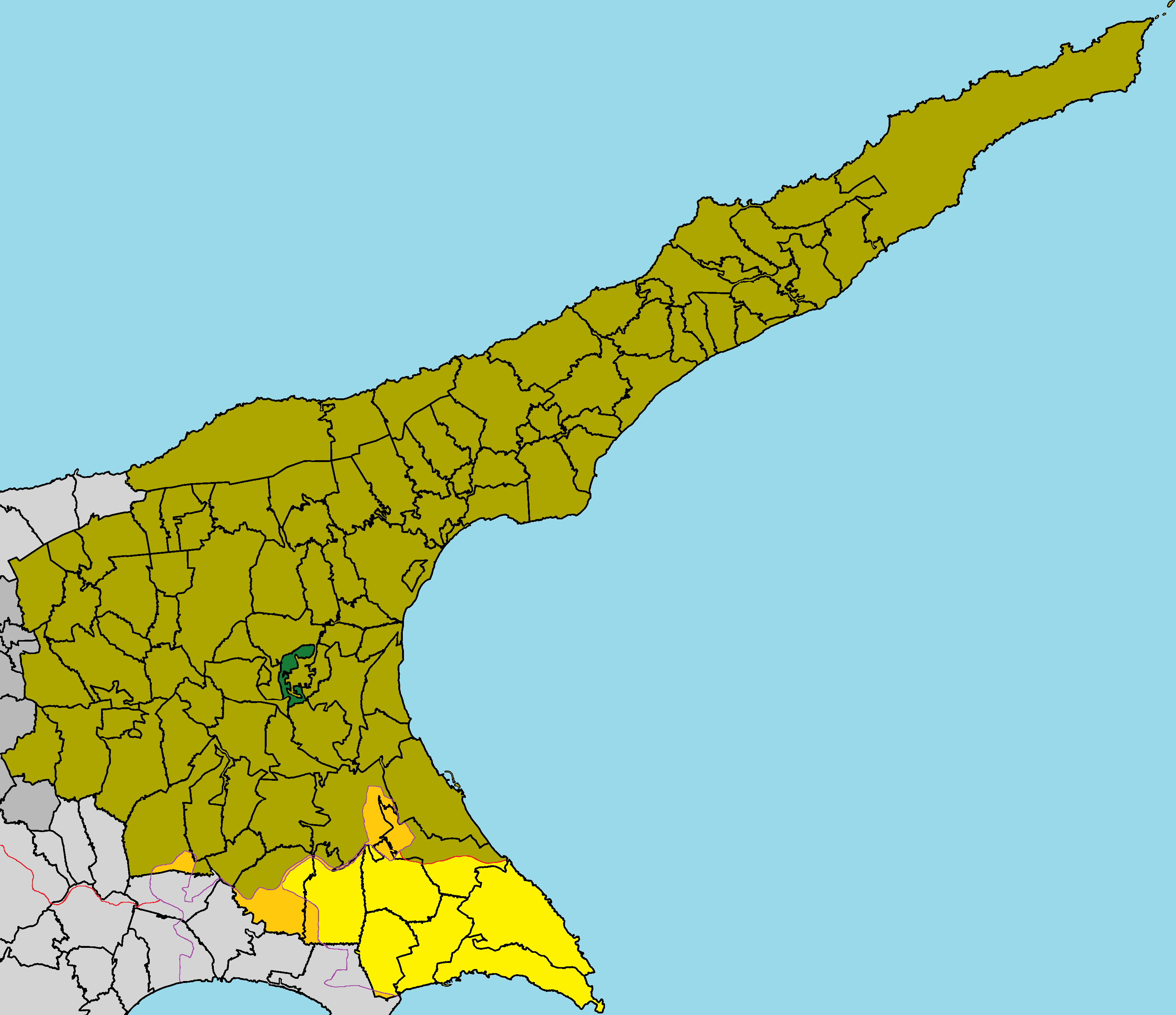 Santalaris in Famagusta District (de jure).